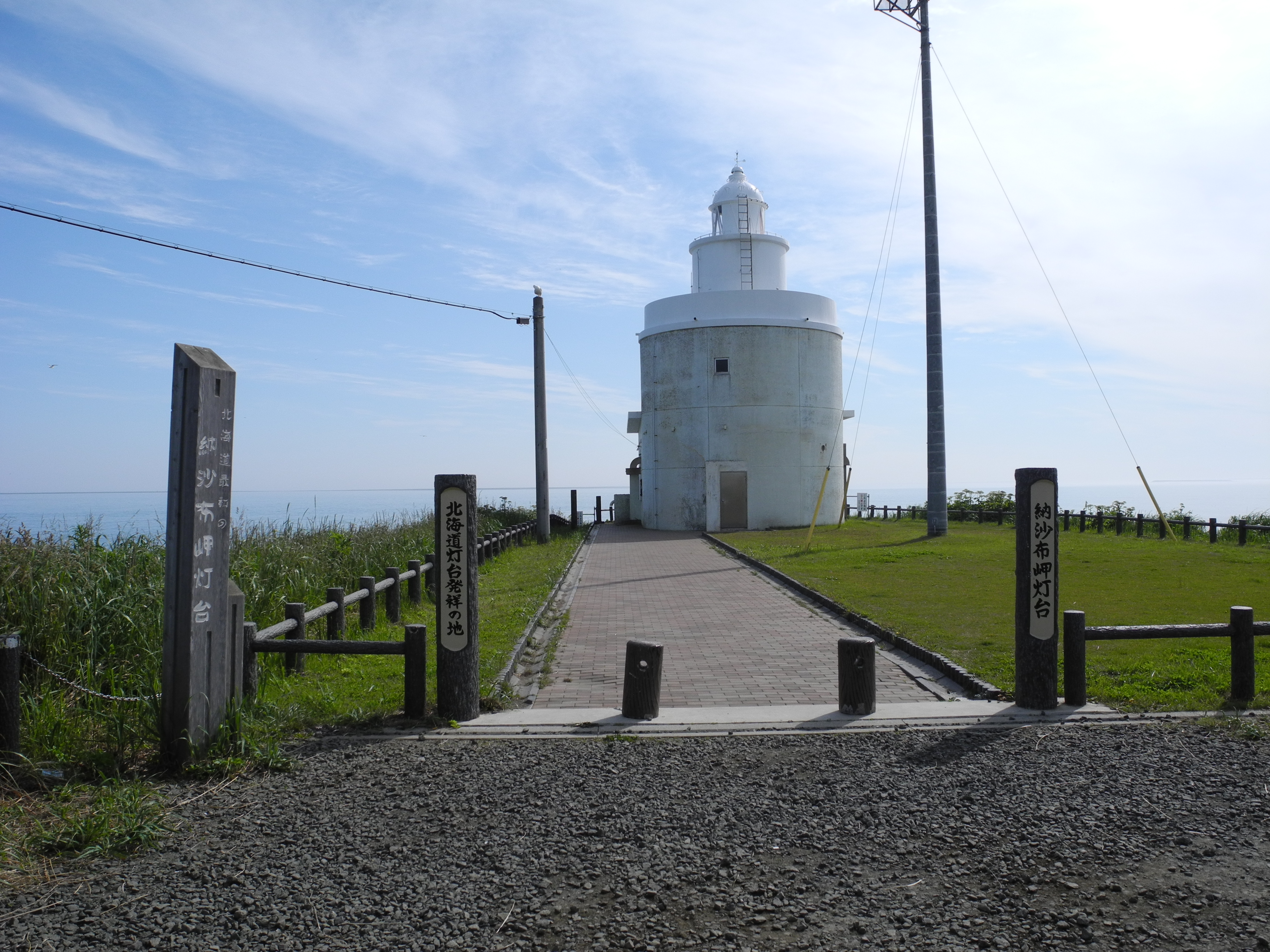 A lighthouse at the easternmost point in Hokkaido. Cape Nosappu. Nemuro, Hokkaido, Japan.